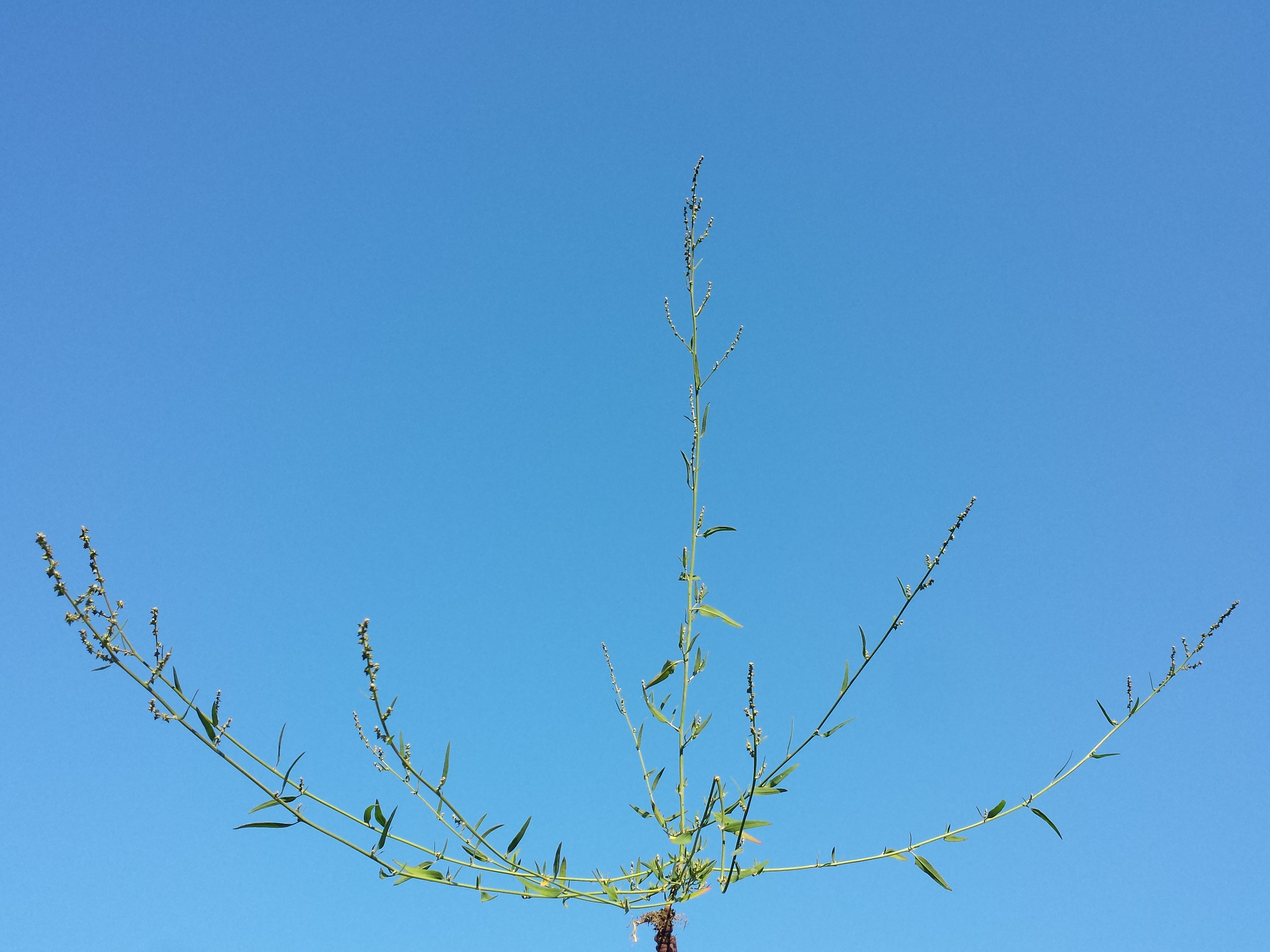 Habitus (individual with predominantly female flowers) Taxonym: Atriplex patula ss Fischer et al. EfÖLS 2008 ISBN 978-3-85474-187-9 Location: Schwarzlackenau, Vienna-Floridsdorf - ca. 160 m a.s.l. Habitat: ruderal area